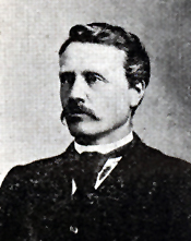 Haldor Boen, US Representative from Minnesota